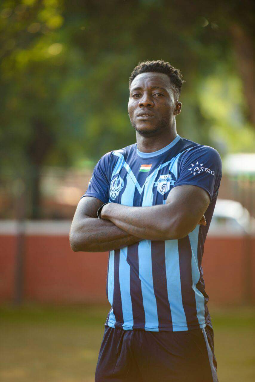 Enyinnaya during a photo shoot in his club Minerva Punjab FC